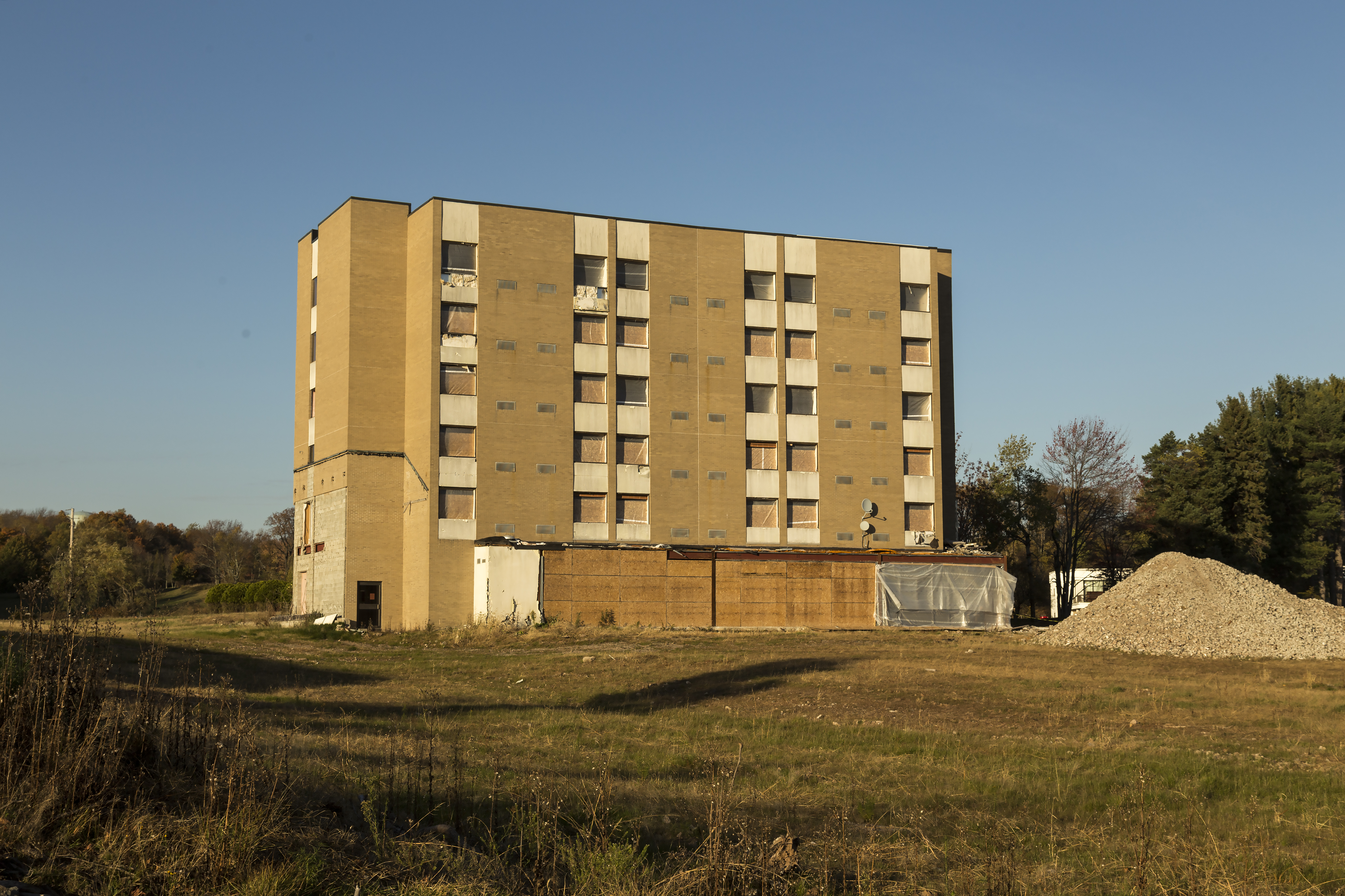 One of the last buildings at Kutsher's Hotel Resort, Monticello, New York, USA